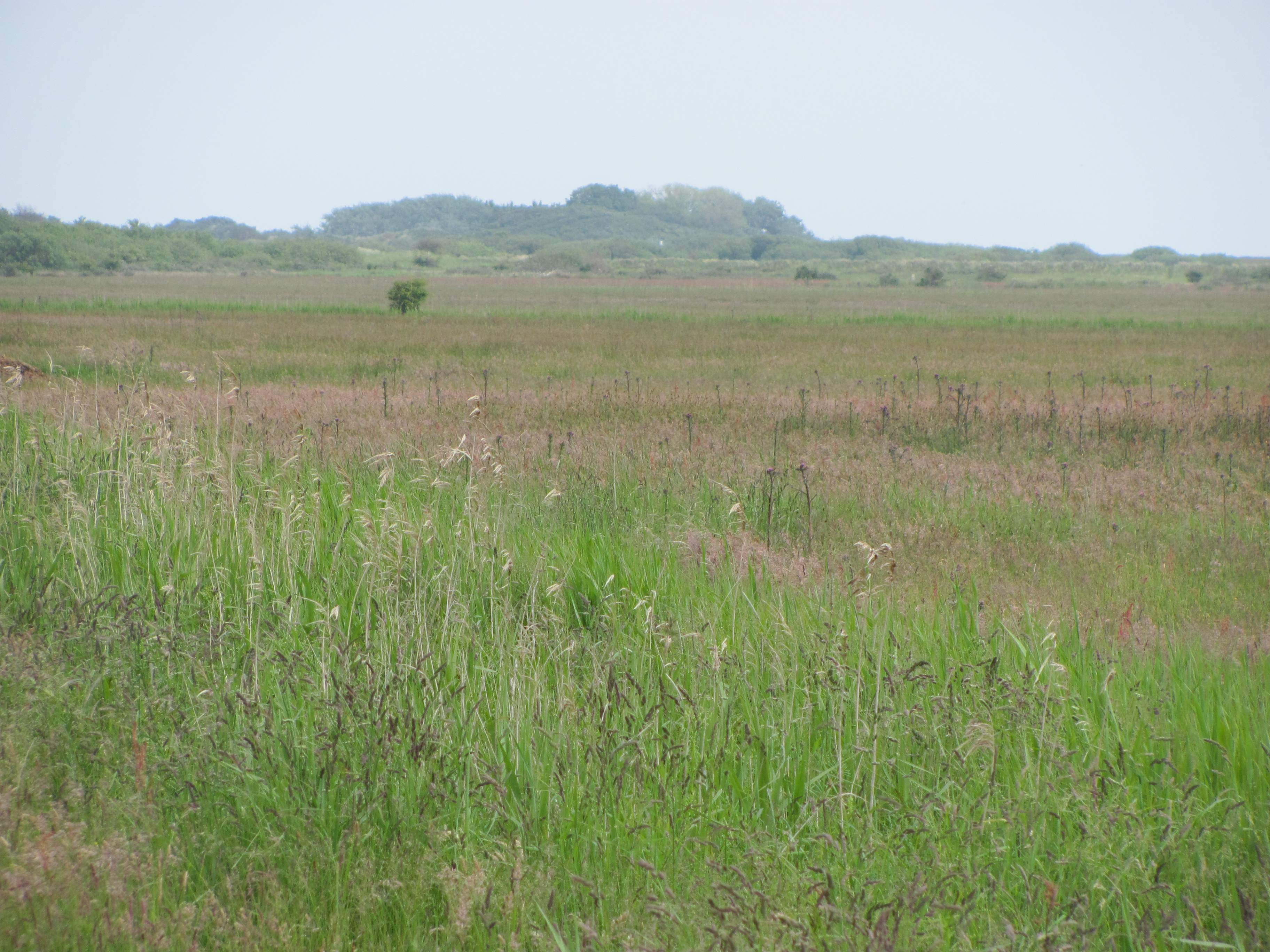 Sternklipp